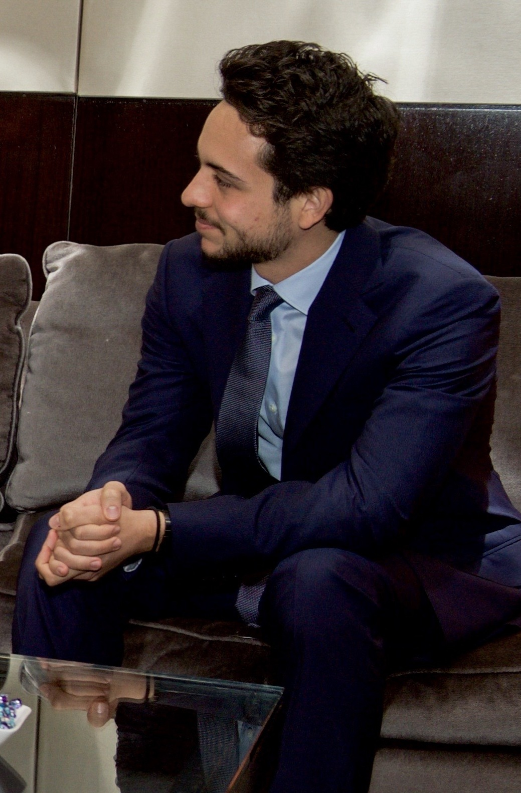 U.S. Secretary of State John Kerry and U.S. Permanent Representative to the United Nations Ambassador Samantha Power meet with King Abdullah II of Jordan and Crown Prince Hussein bin Abdullah on the sidelines of the 70th Regular Session of the UN General Assembly in New York, New York, on September 27, 2015. [State Department photo/ Public Domain]